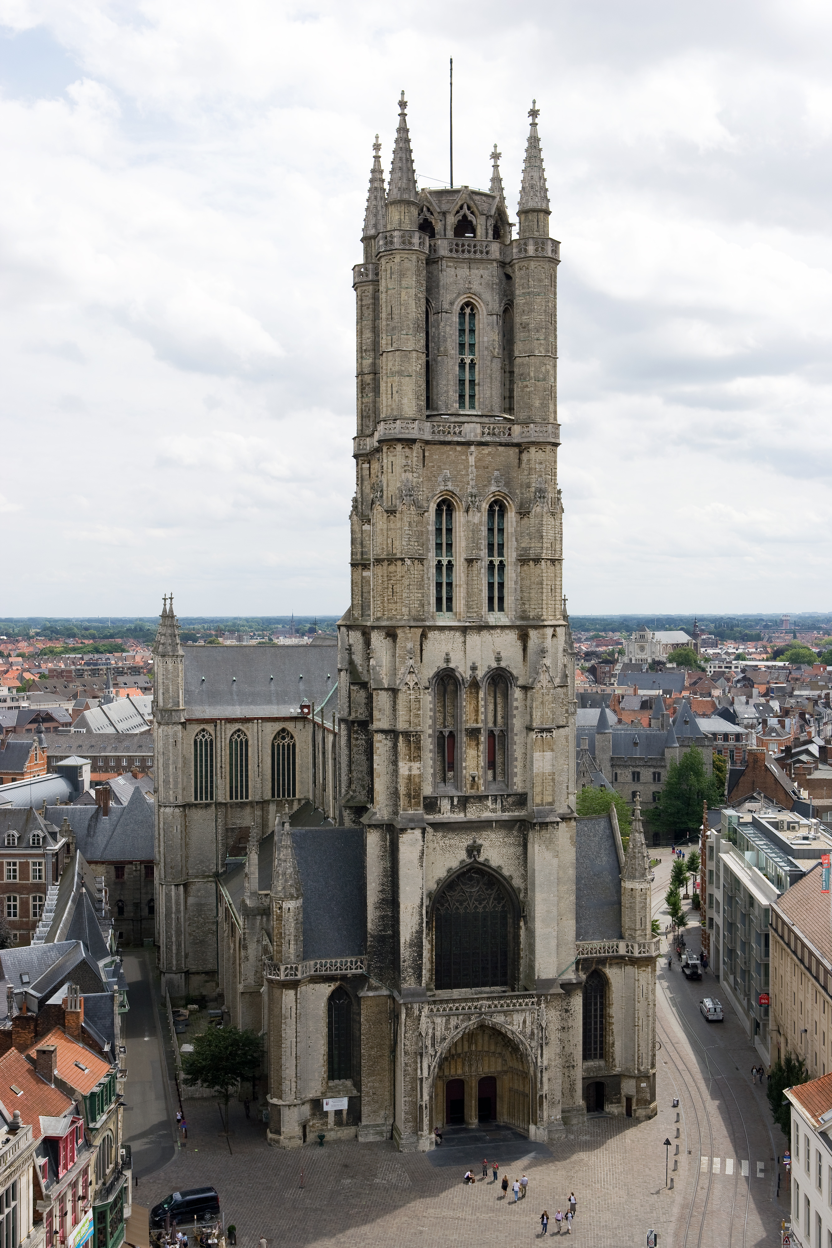 Ghent, Belgium: Sint-Baafskathedraal (Saint Bavo Cathedral) as seen from the top of the opposing bell tower